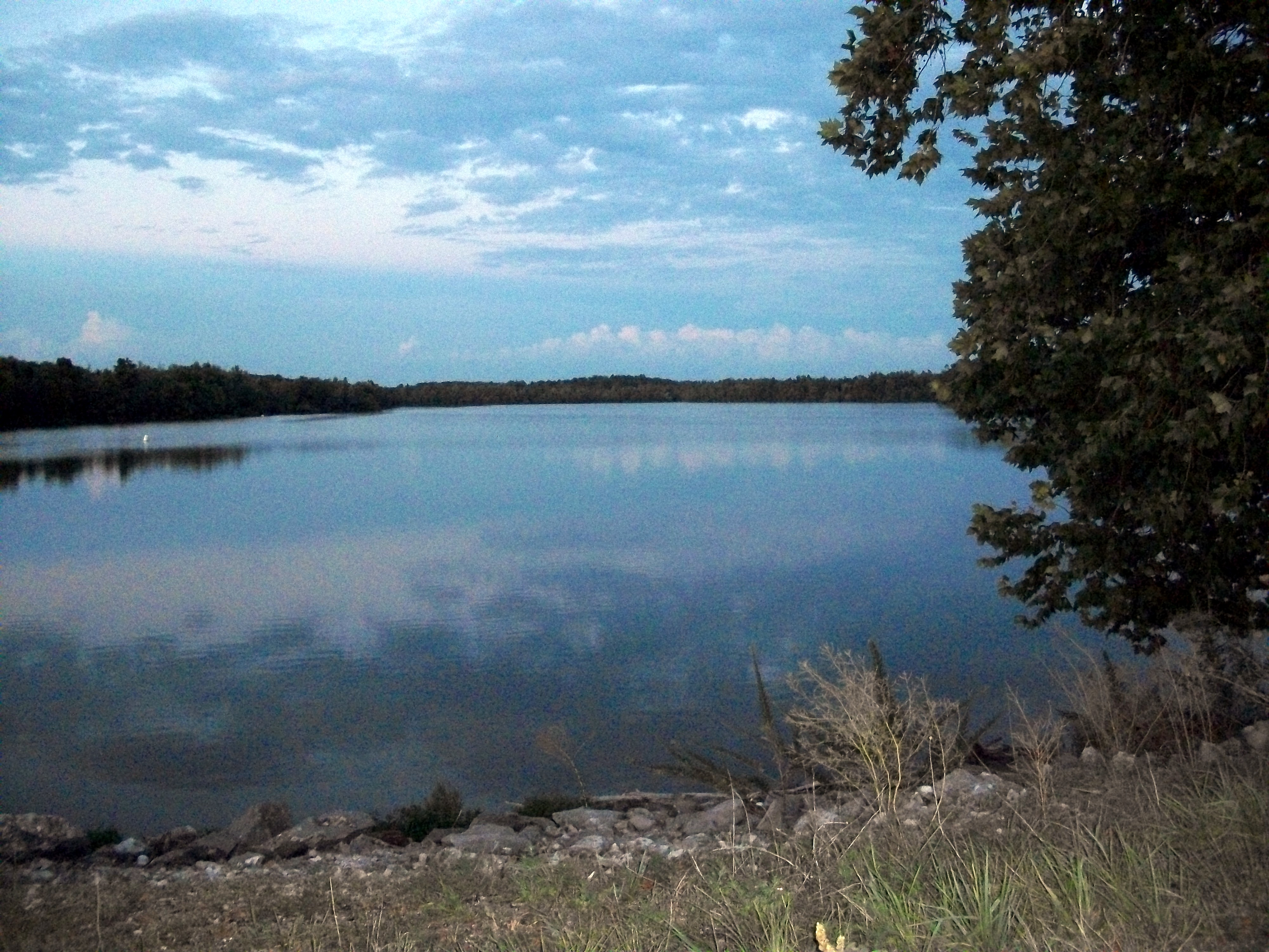 Lake Fayetteville in Fayetteville, Arkansas. Near Springdale along the Lake Fayetteville Trail approaching sunset.